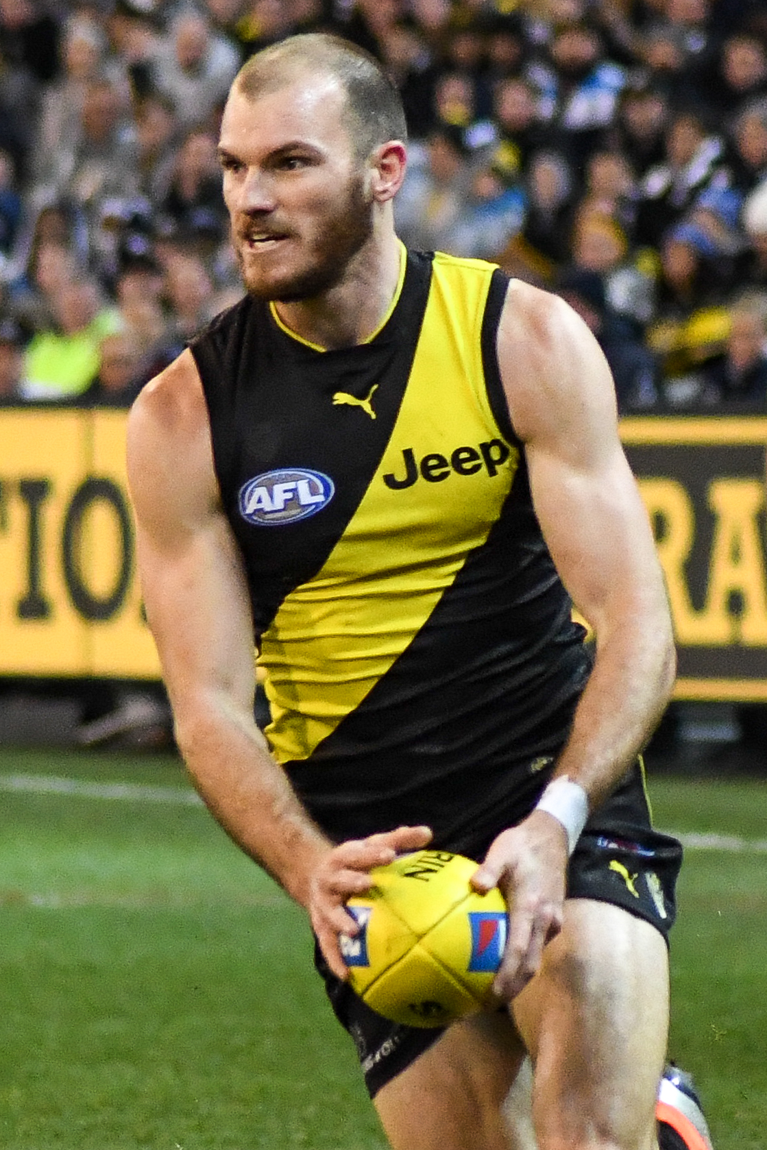 Kamdyn McIntosh of Richmond during the 2018 AFL round 20 match between Richmond and Geelong at the Melbourne Cricket Ground on Friday, 3 August 2018 in Melbourne, Victoria.